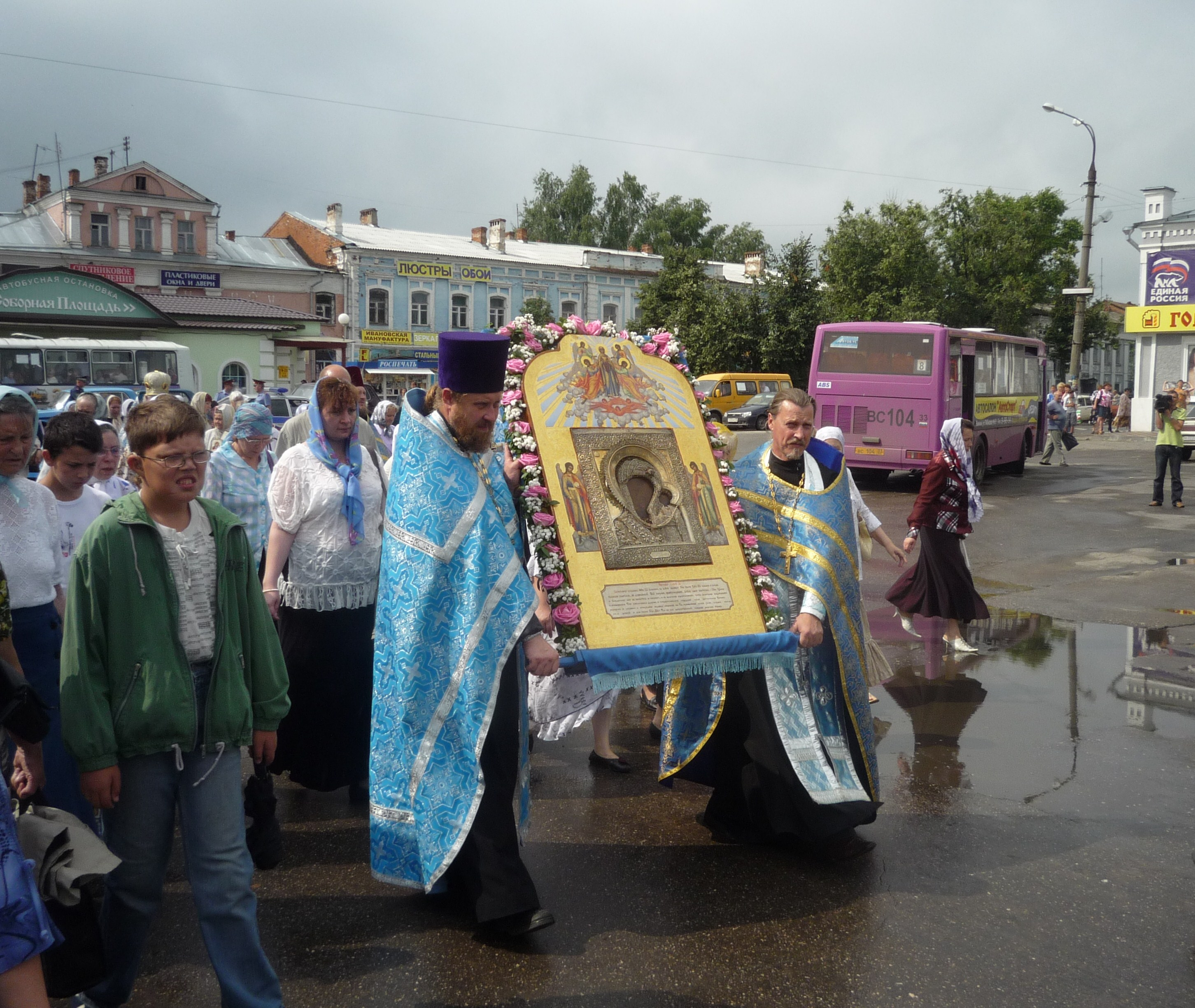 Крестный ход в Вязниках